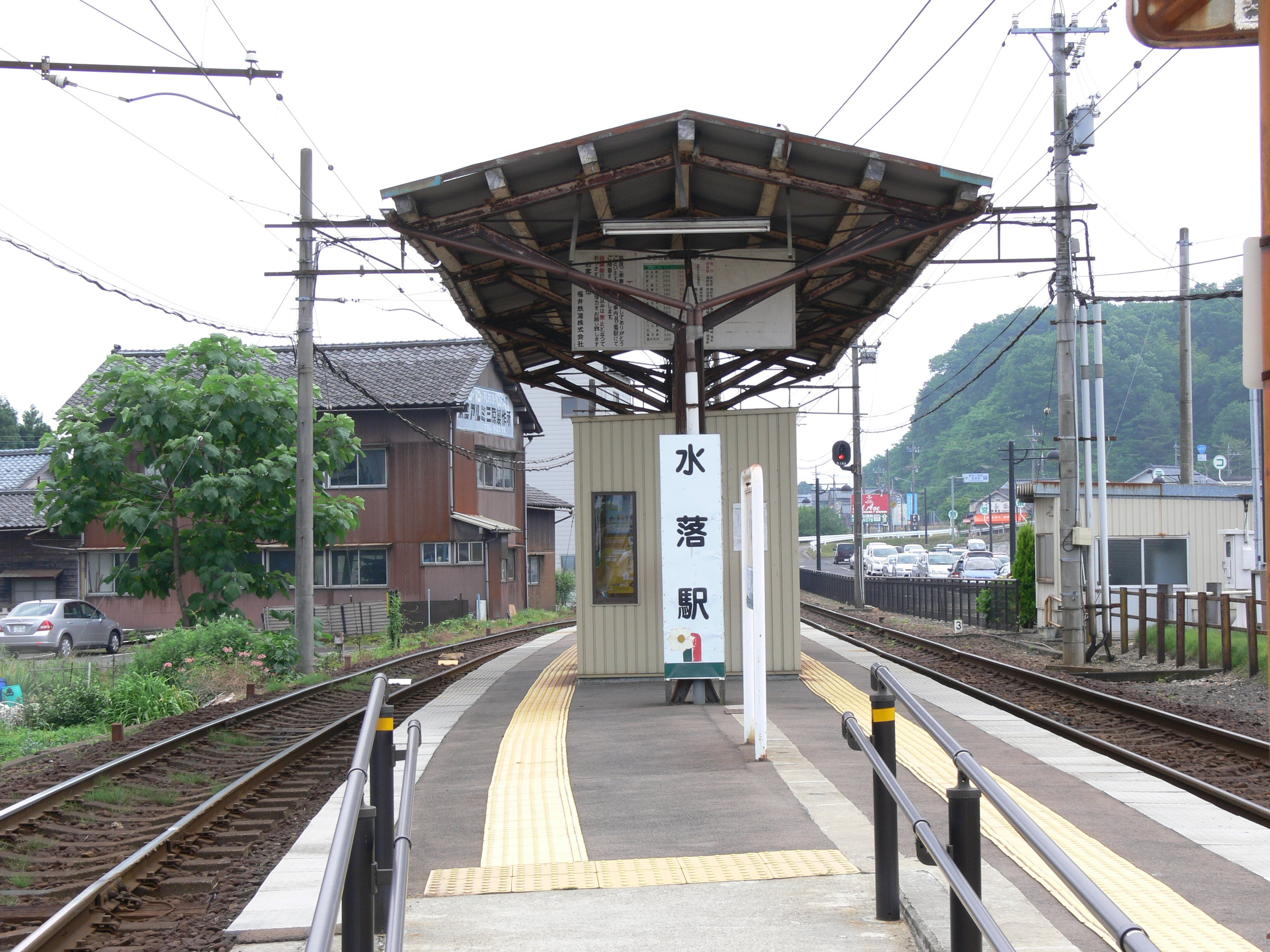 水落駅駅舎